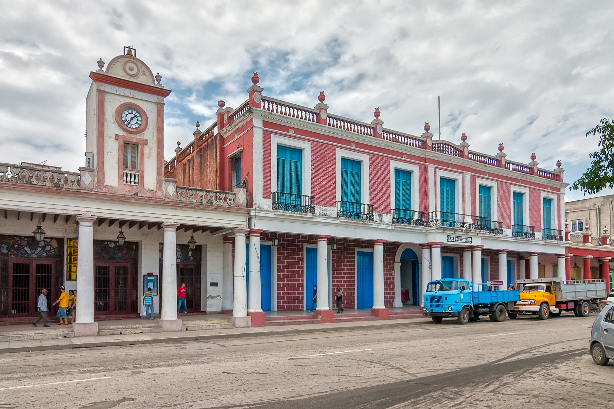 Town hall of Holguin, Cuba